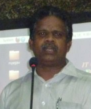 CPIM Alappuzha DCS